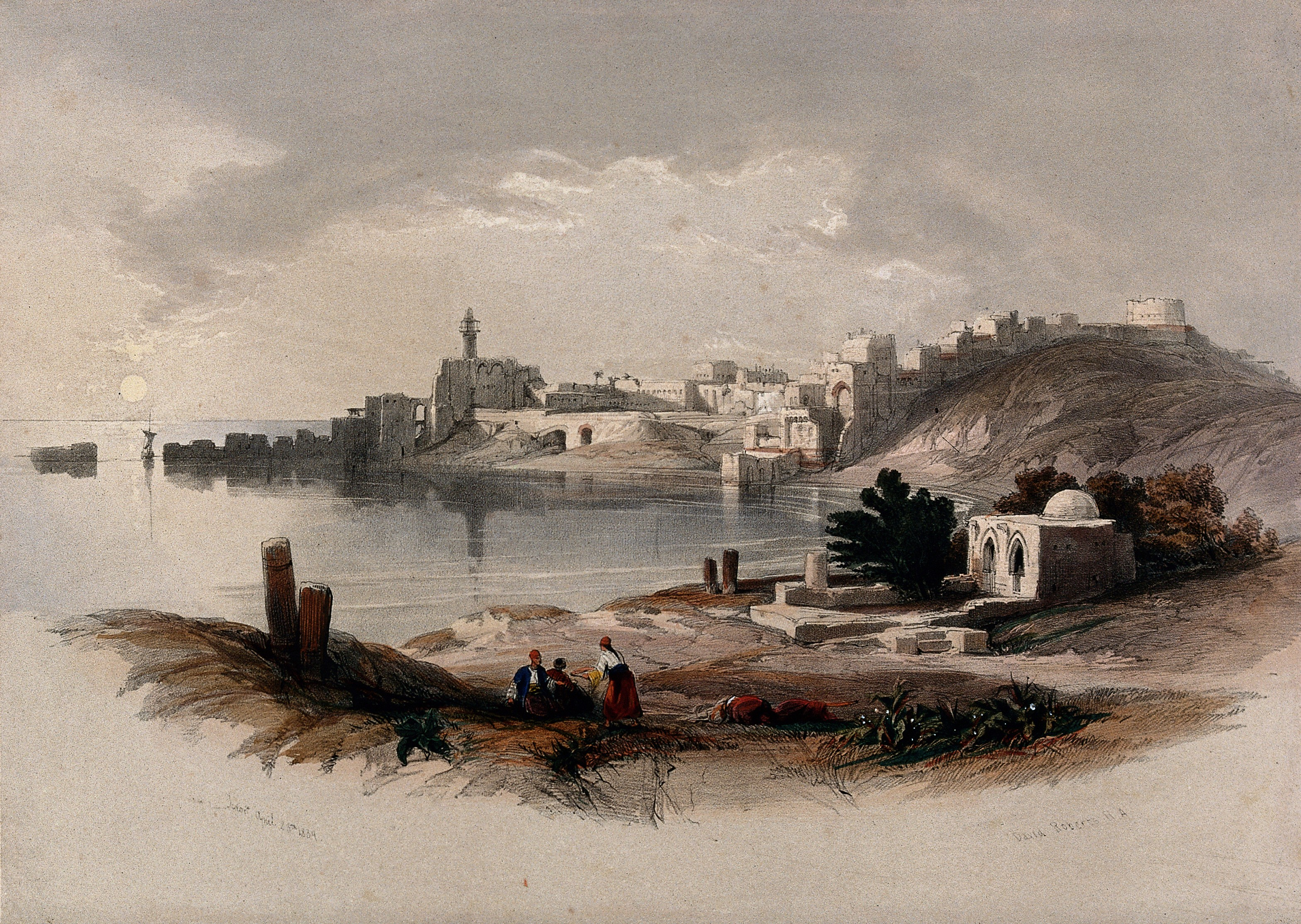 Sidon seen from the north. Coloured lithograph by Louis Haghe after David Roberts, 1843. Iconographic Collections Keywords: David Roberts; Louis Haghe